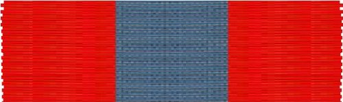 Crop white space and make ratio 100:30